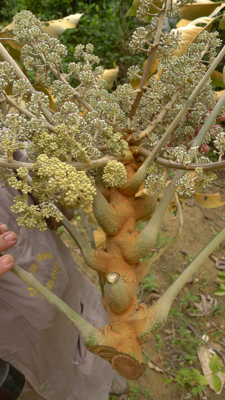 Schefflera morototoni (Aubl.) Maguire, Steyerm. & Frodin